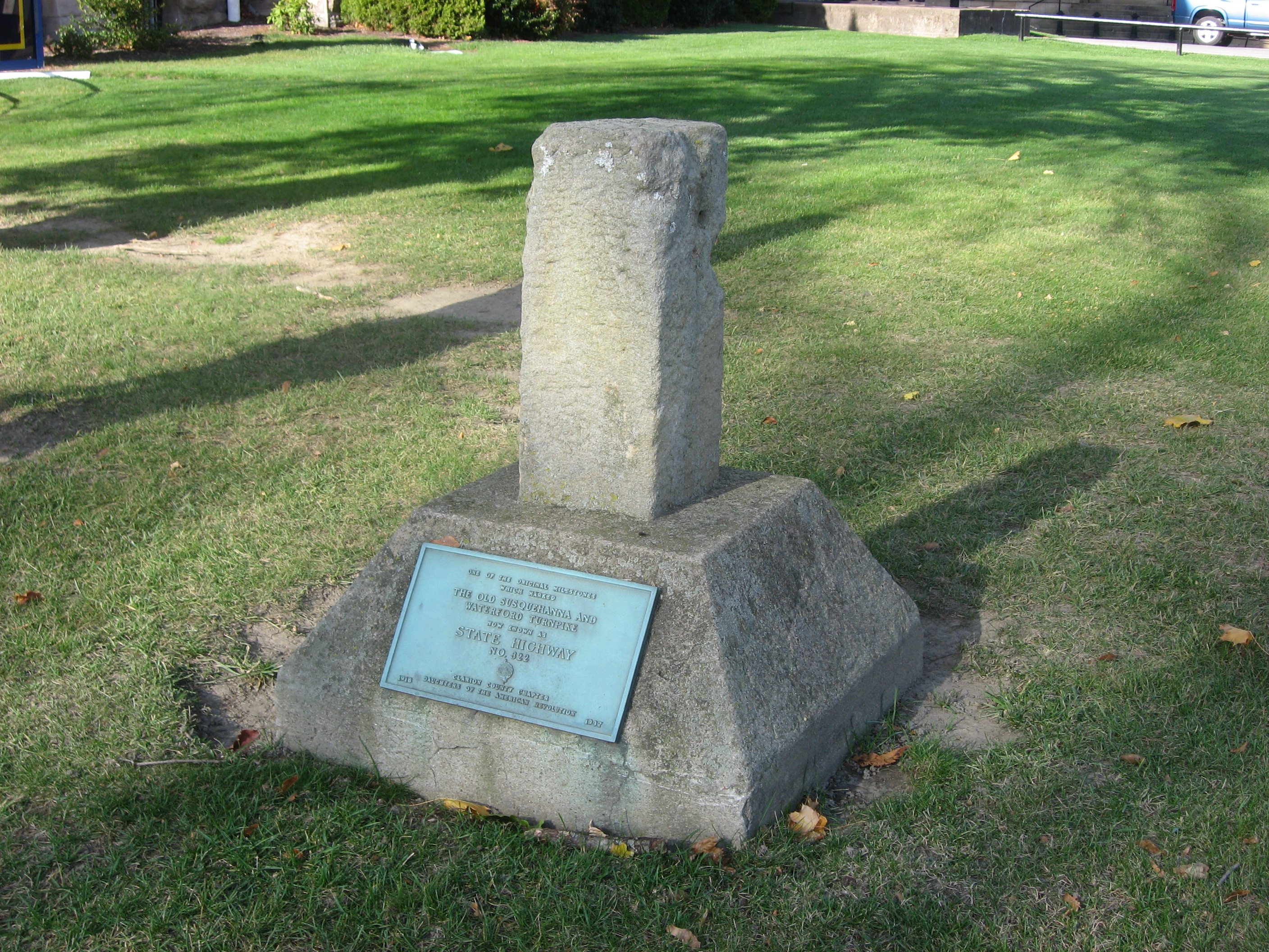 A monument in the front lawn of the Clarion County Courthouse along Main Street (U.S. Route 322) in Clarion, Pennsylvania, United States. The plaque ( PD-US-no notice ) reads as follows: ONE OF THE ORIGINAL MILESTONES WHICH MARKED THE OLD SUSQUEHANNA AND WATERFORD TURNPIKE NOW KNOWN AS STATE HIGHWAY NO. 322 [logo] CLARION COUNTY CHAPTER DAUGHTERS OF THE AMERICAN REVOLUTION The dates 1918 and 1937 appear on the plaque's bottom left and bottom right, respectively.